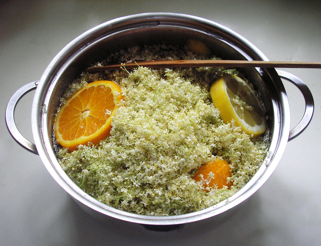 First time we try this, so no idea how it will turn out, but here's the recipe we used: 15 panicles of elderflower 1 l Water 1 kg Sugar 1 untreated Lemon 2 untreated Oranges 30 g Citric Acid Add sugar to water and heat up until the sugar is dissolved. Let the mixture cool down. Remove the stalks from the elderflowers. Important: DON'T wash the elderflowers before use or they will lose their taste. Cut the lemon and oranges into slices. Add elderflowers, lemons, oranges and citric acid to the water-sugar-mix. Stir well. Cover it and let it rest for about 48 hours and stir from time to time. Strain the mixture. Bring the syrup to a brief boil before filling it into bottles.